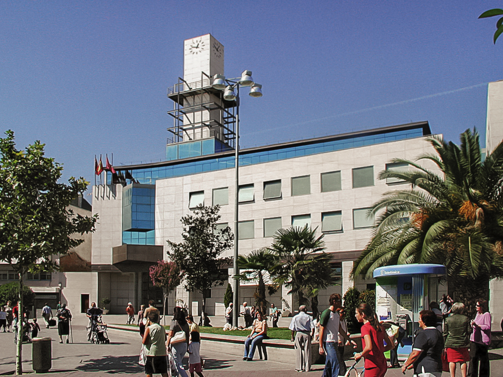 City council of Getafe (Madrid), Spain.